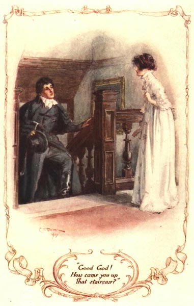 Colour illustration of a 1907 edition of Northanger Abbey (Jane Austen's novel), by C. E. Brock (died 1938)